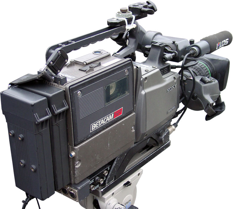 Professional Sony Betacam SP Camcorder.